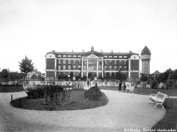 The school Olaus Petriskolan, Örebro, Sweden, in the 1920ies.